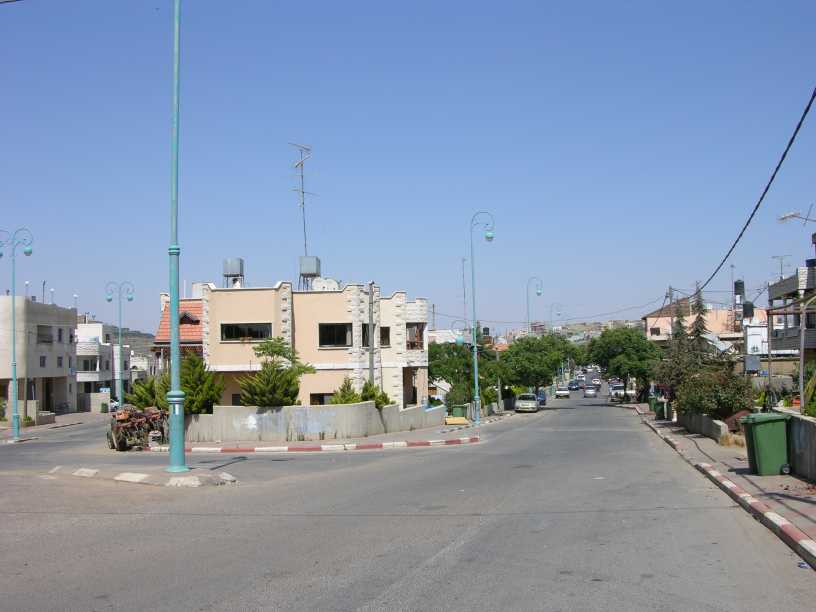 Buq'ata, Golan Heights, seen in direction to Syria